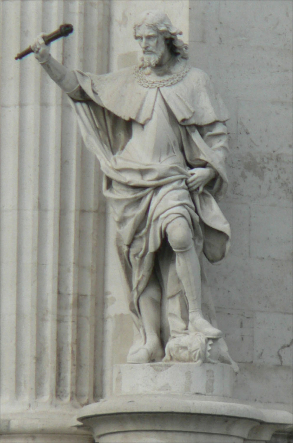 Statue of Sancho III, nicknamed the Major, king of Navarre (1000-1035). In the Esth facade of the Main Floor of the Real Palace of Madrid.